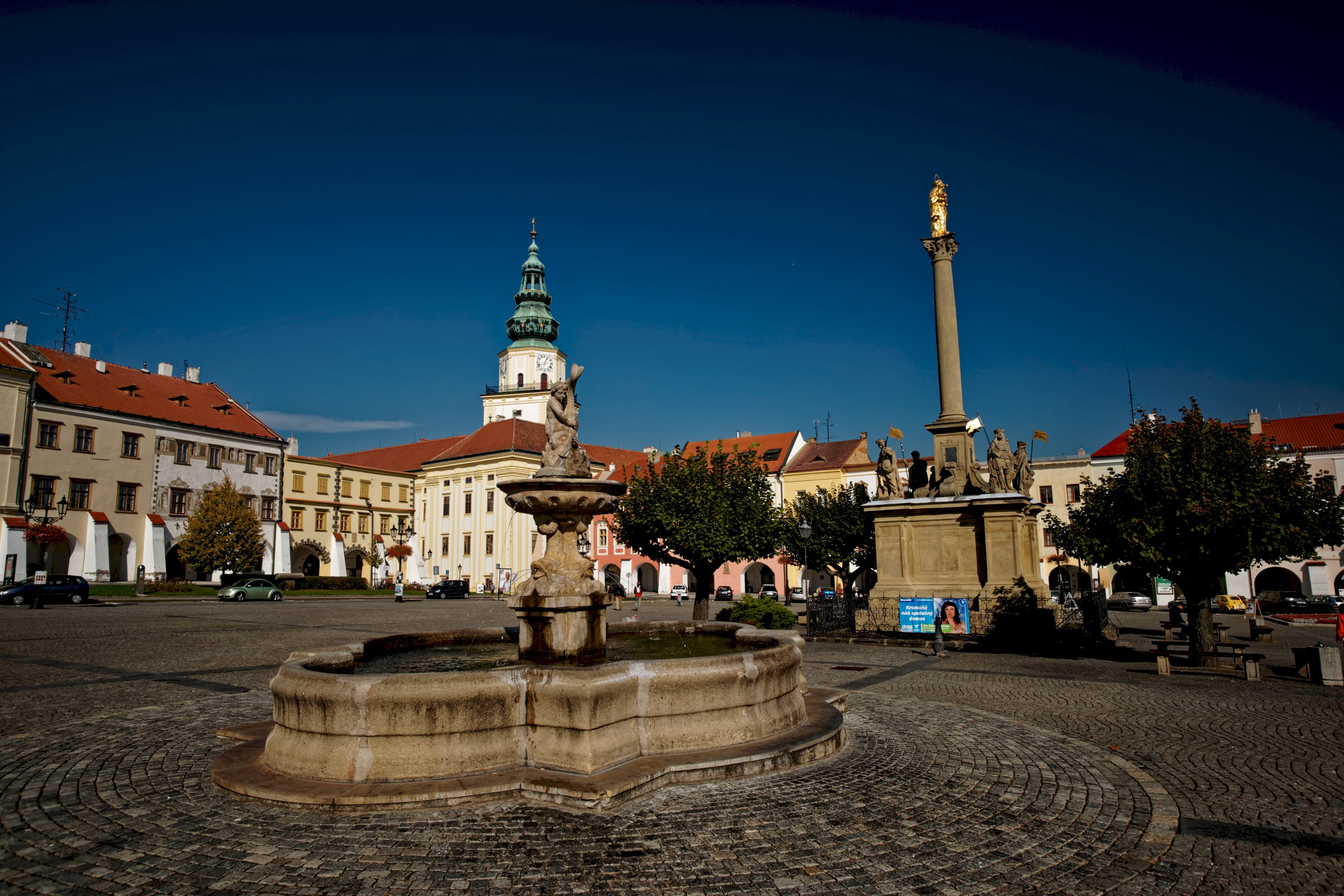 Kroměříž - Velké náměstí - View North on Fountain 1655 & Marian Column 1680